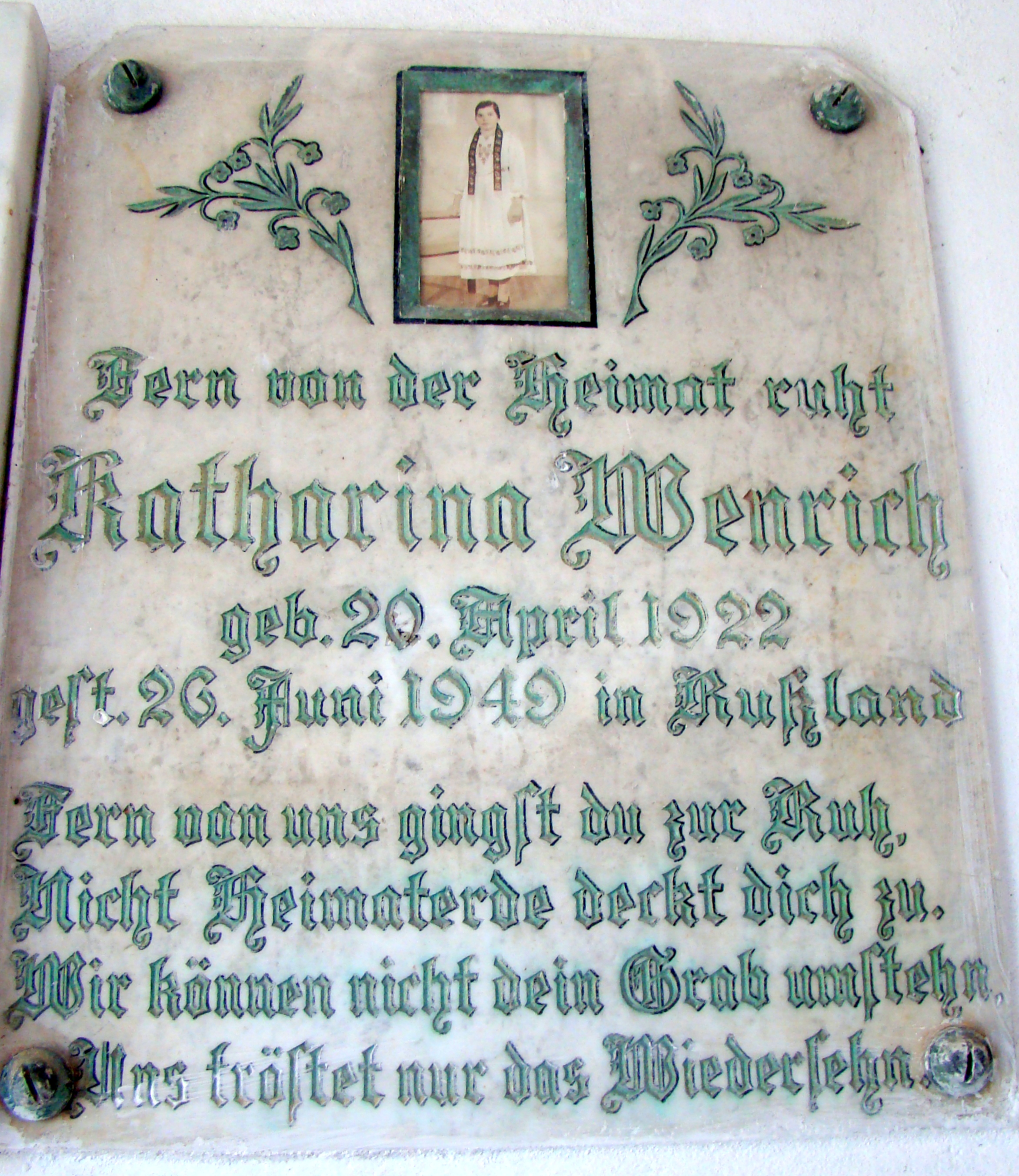 Lutheran church in Hetiur, Mureș County, Romania